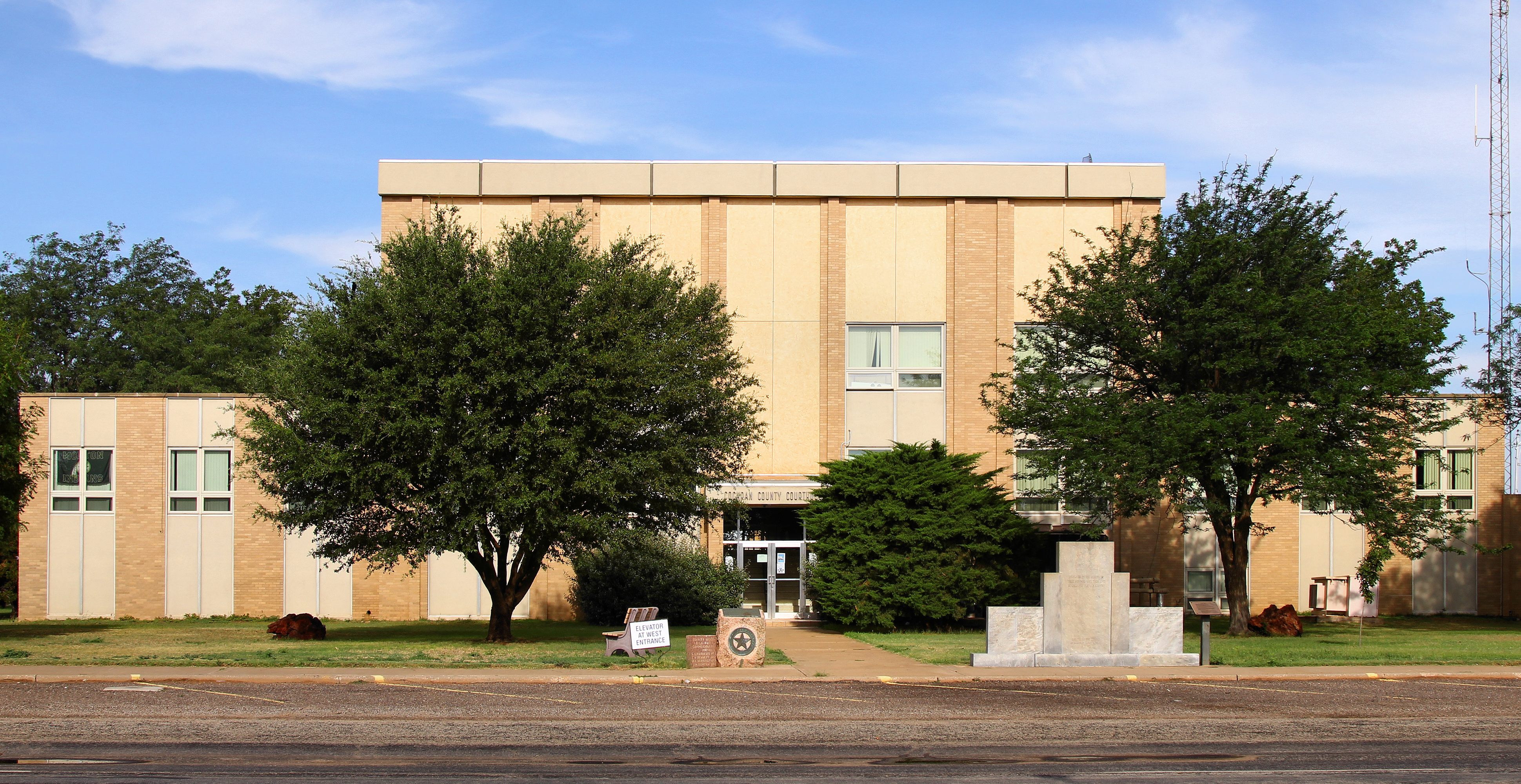 The Cochran County Courthouse in Morton, Texas, United States was built in 1926.